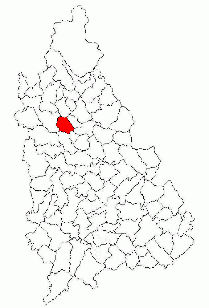 Locator map of Vulcana-Pandele Commune in Dâmbovița County, Romania